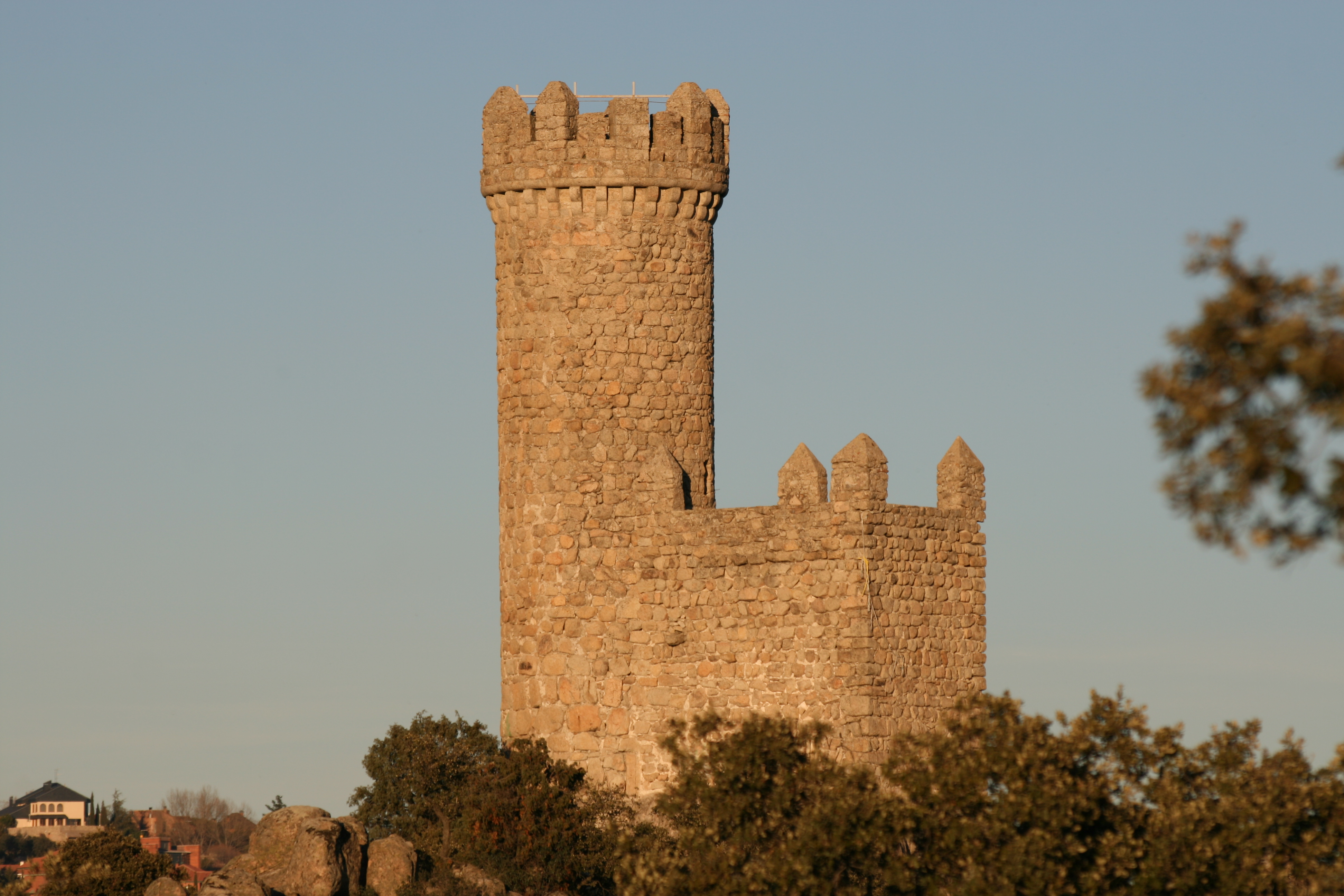 Also called Tower Lodones. Medieval. Largely rebuilt, retaining the original structure of Muslim watchmen belonging to the Middle Ages.